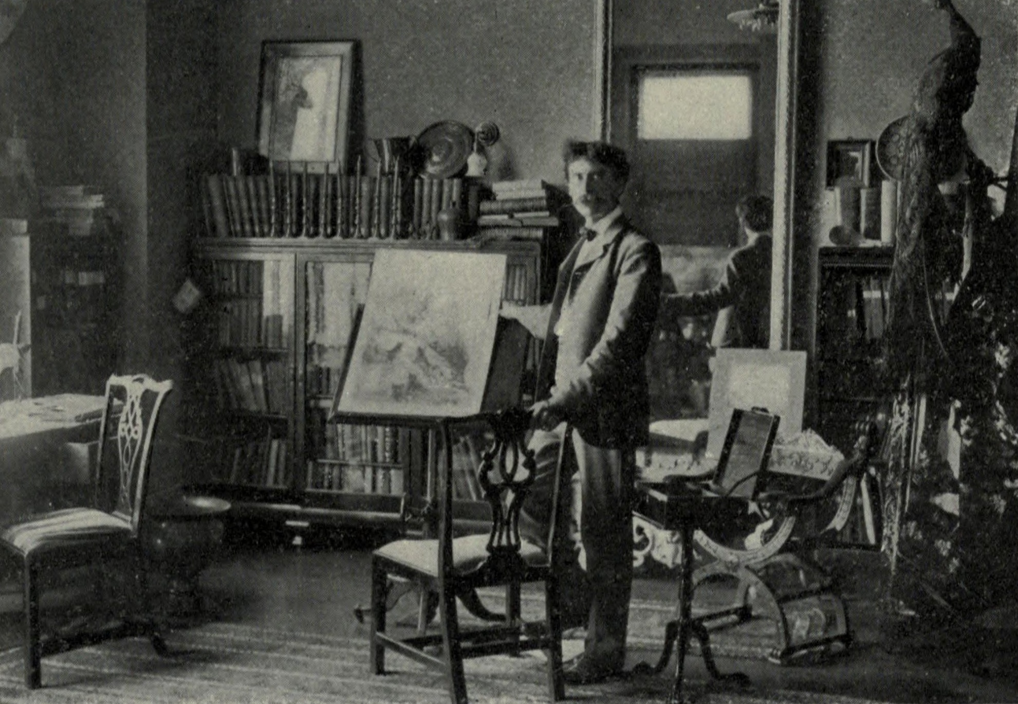 Ernest Thompson Seton